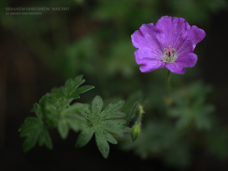 Geranium sanguineum 'Max Frei'